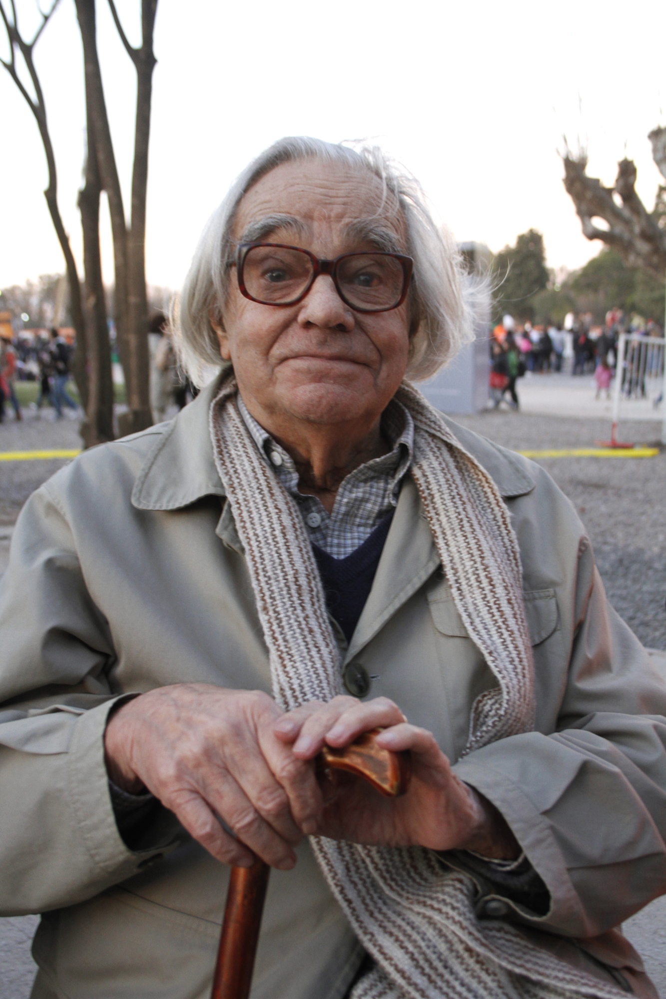 Argentine sculptor León Ferrari at the 2011 Tecnópolis fair, in Villa Martelli. Photo: Mariano Sanda/Tecnópolis.